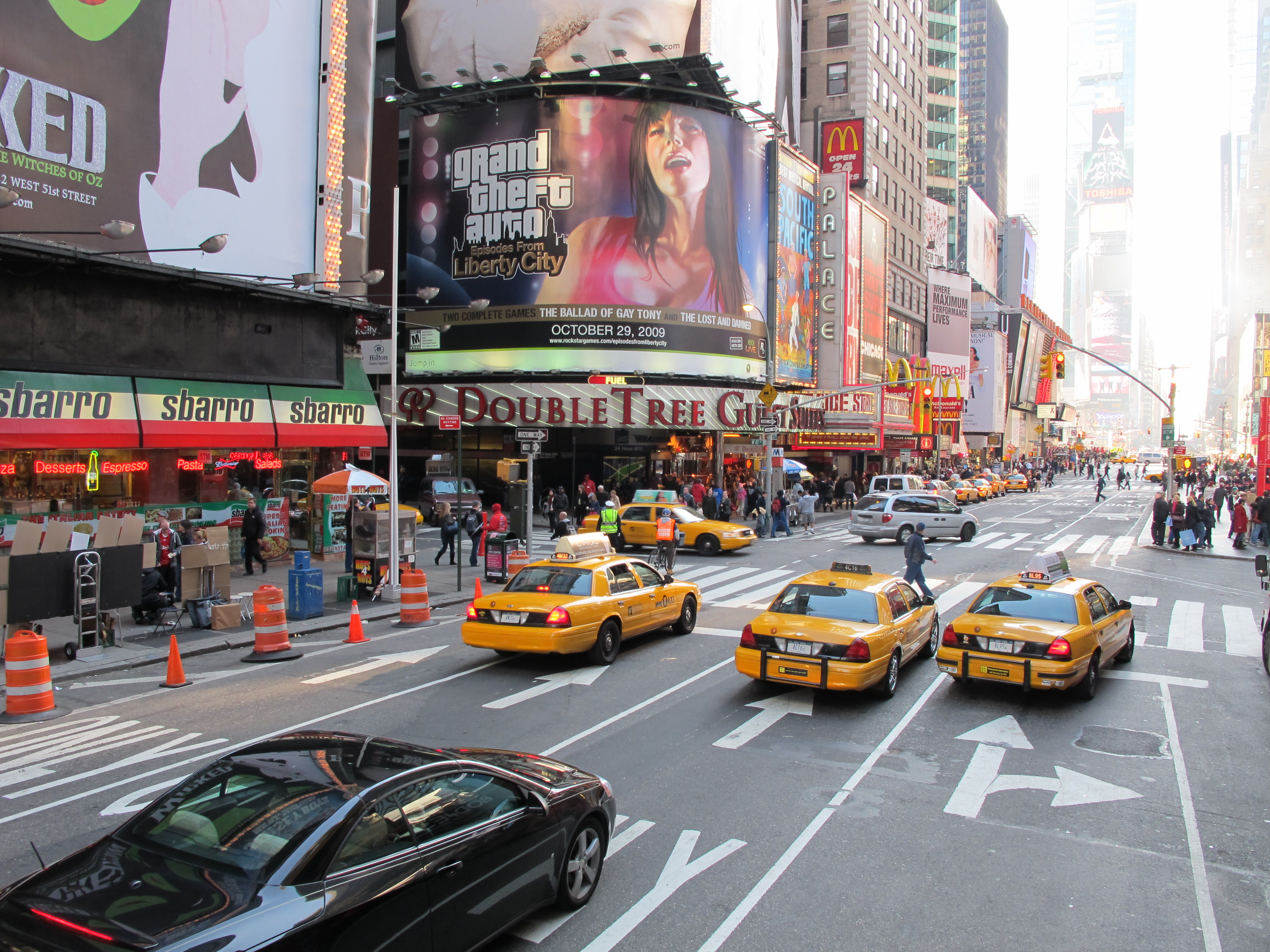 Manhattan, New York City